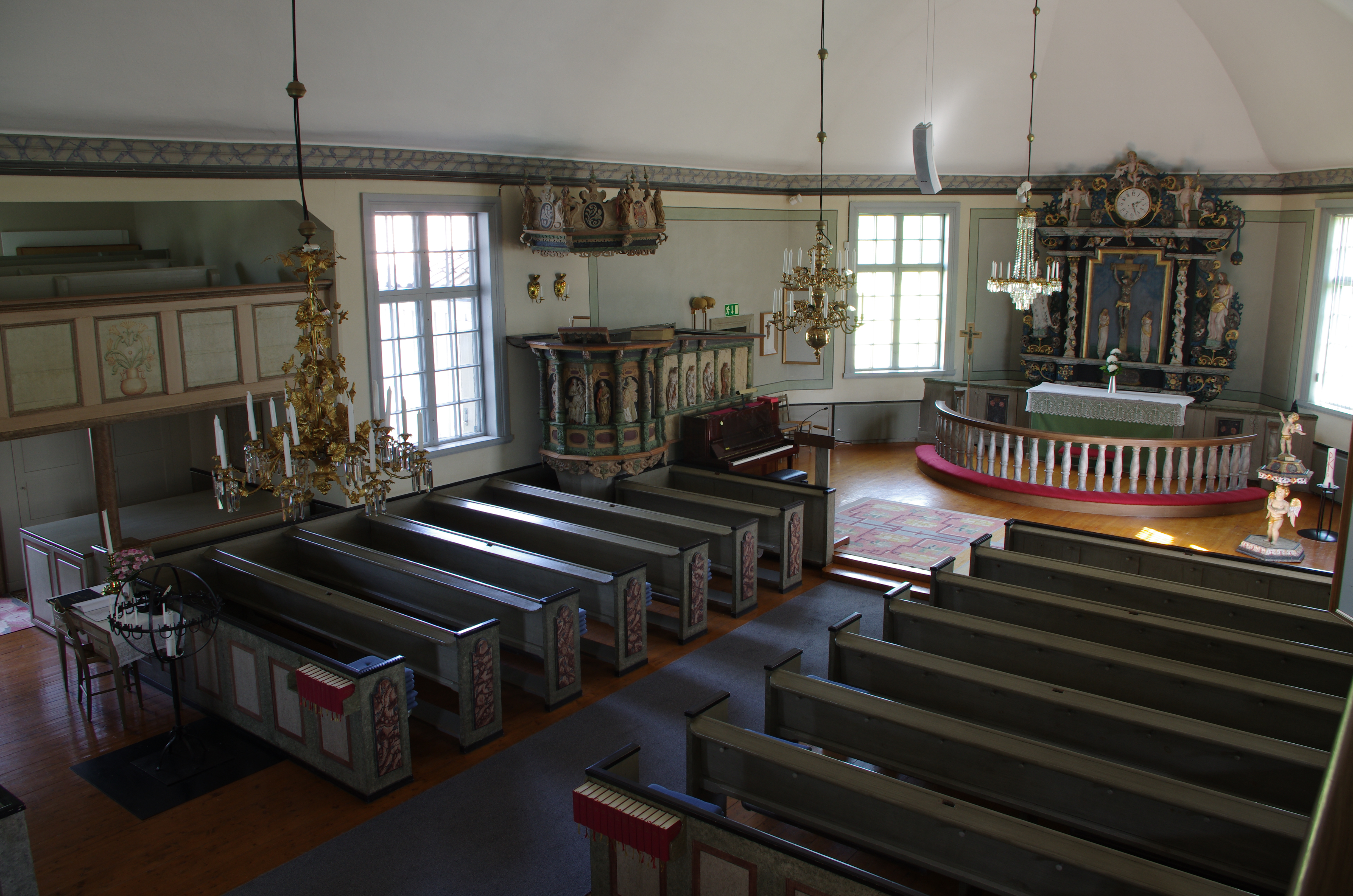 Gustav Adolfs kyrka (swedish: Gustav Adolf church), Västergötland, Sweden.